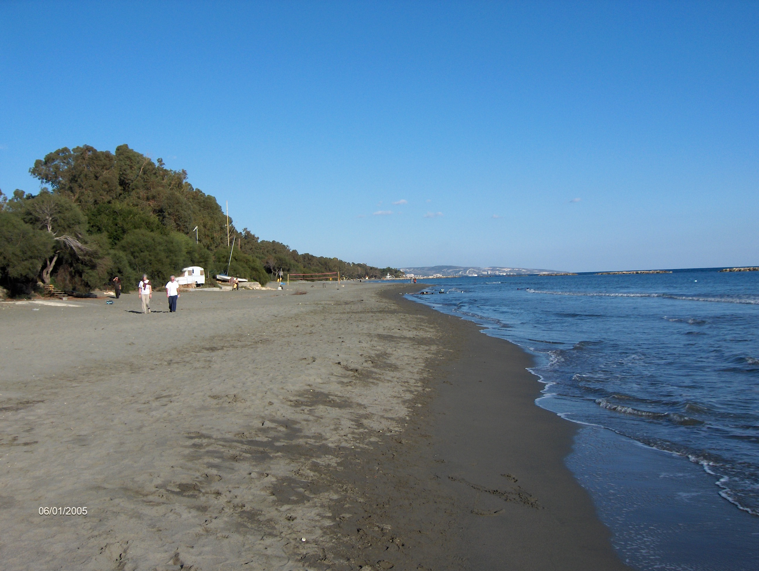 Limassol beach in January